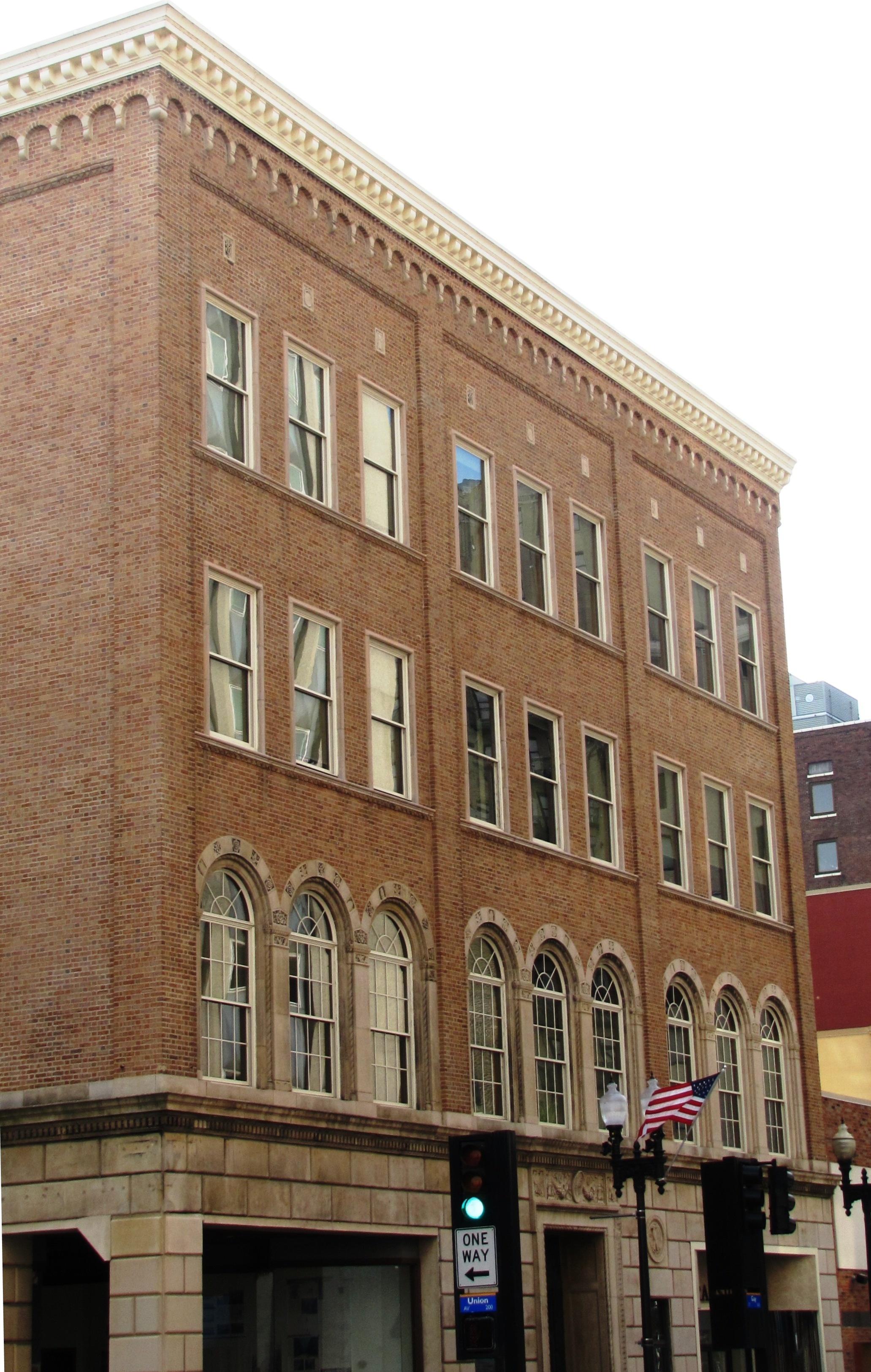 The Fidelity Building, listed on the National Register of Historic Places as the Cowan, McClung and Company Building, in Knoxville, Tennessee, USA.